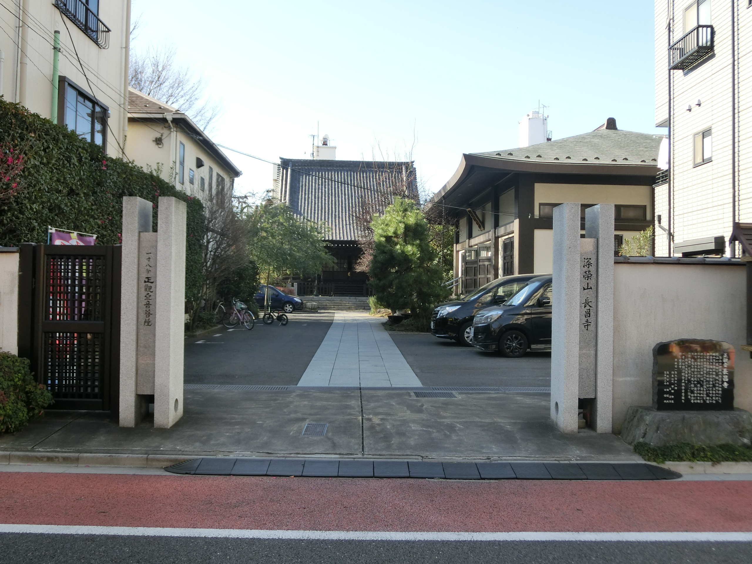 Chosho-ji (Taito)